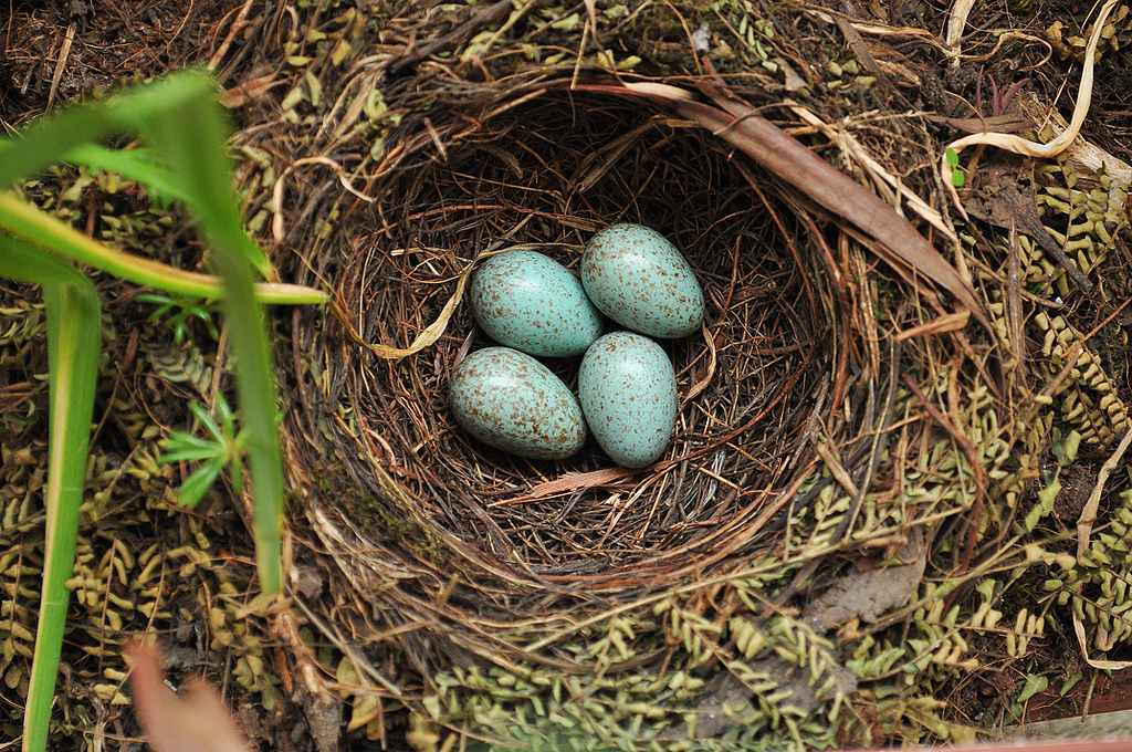 Four Rufous-bellied Thrush eggs in a nest in São Paulo, Brazil.